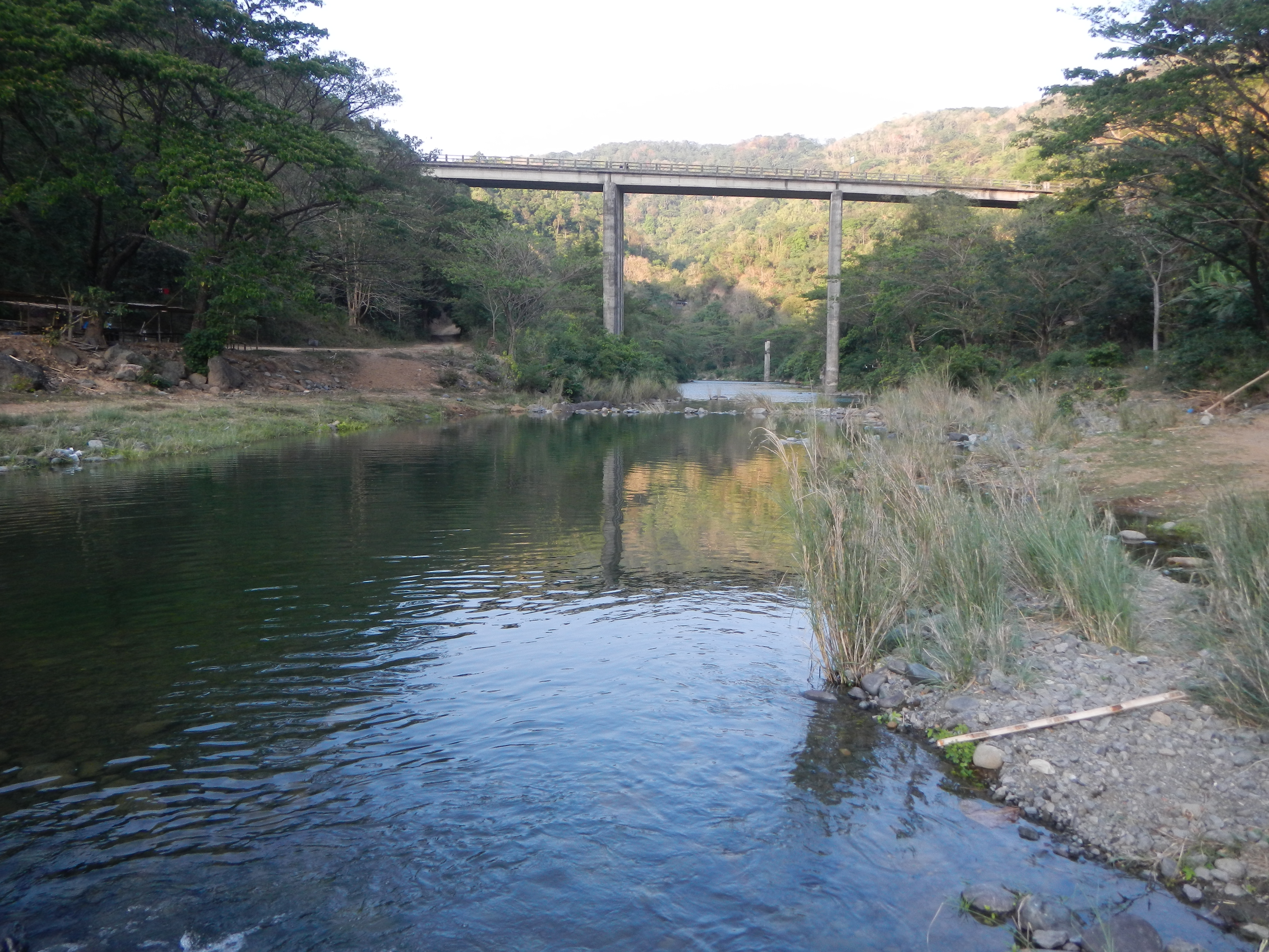 Angat Rainforest and Ecological Park, Bit-Bit River-Bit-Bit Bridge in Barangay San Mateo beside San Lorenzo (Hilltop), Angat Reservoir and Hydroelectric Power Plant surrounded by lush greens, Angat Lake from Bigte, Norzagaray, Bulacan, Bulacan province (along the Bigte-San Mateo, Norzagaray, Bulacan Farm to Market Provincial Road interconnecting with the San Mateo-San Lorenzo, Norzagaray, Bulacan Farm to Market Road; connected by the Bit-Bit, River-Bit-Bit Bridge 14° 53.984N 121° 08.428E to the Angat Rainforest and Ecological Park, AREP, Watershed Management Department, Sitio Bitbit, Angat Watershed Area Team, by Presidential Proclamation Nos. 505 and 599 under the National Power Corporation, Exective Order No. 224, beside the Headquarters Alpha (AGGRESSOR) Company 48th Infantry Guardians BN, 7th Infantry Division, Philippine Army, Headquarters 3rd Platoon, 1st BUCAA Company, Charlie Company 70 IB (CAFGU) 7ID, PA, Sitio Suha Patrol Base, Detachment, from and along the General Alejo G. Santos Highway (Angat-Norzagaray, Bulacan section) interconnecting with and from the Norzagaray, Bulacan Welcome arch located in Barangay Minuyan I, Sapang Palay, City of San Jose del Monte, along Quirino Highway).